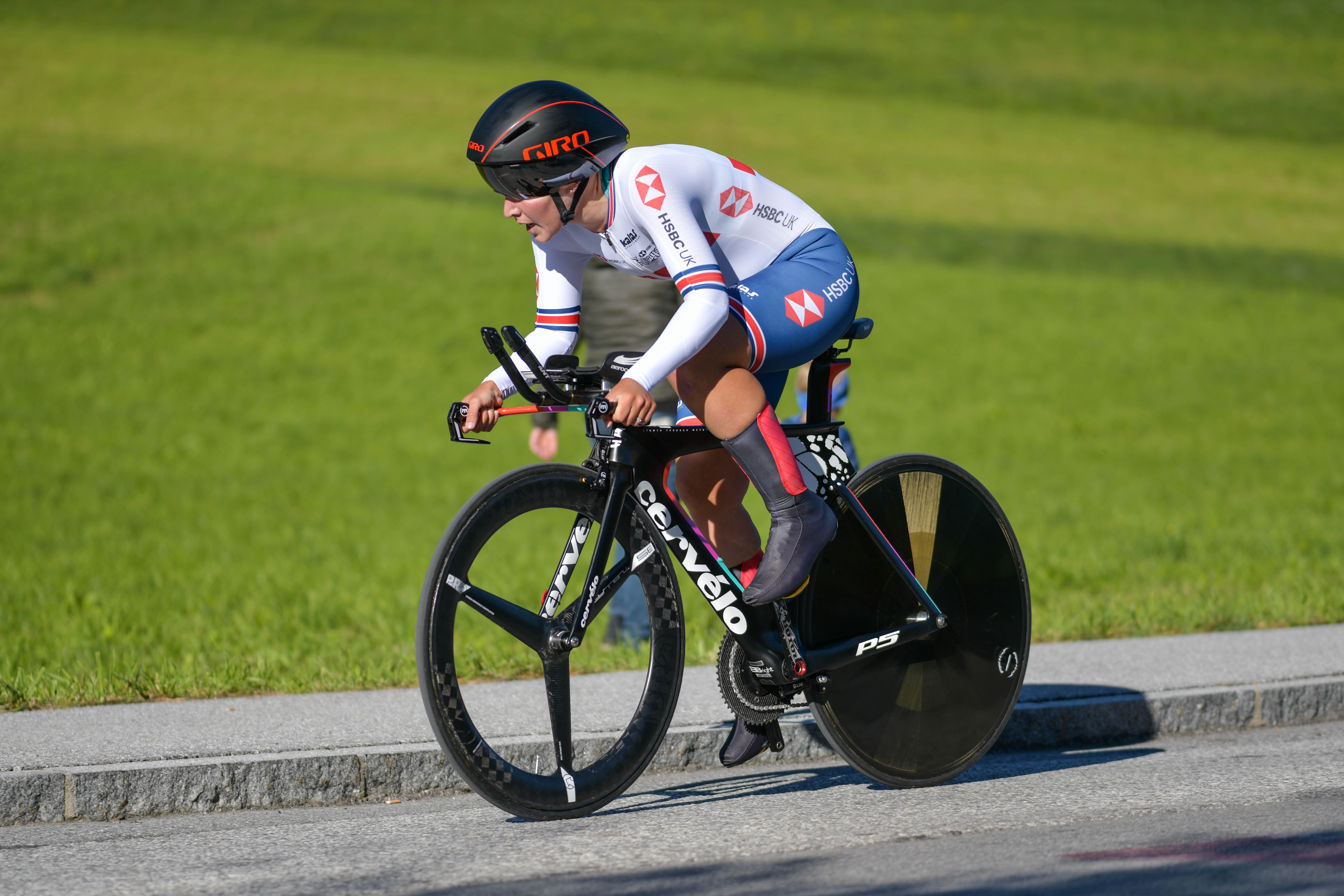 2018 UCI Road World Championships Innsbruck/Tirol Women Elite Individual Time Trial. Picture shows: Hayley Simmonds of Great Britain